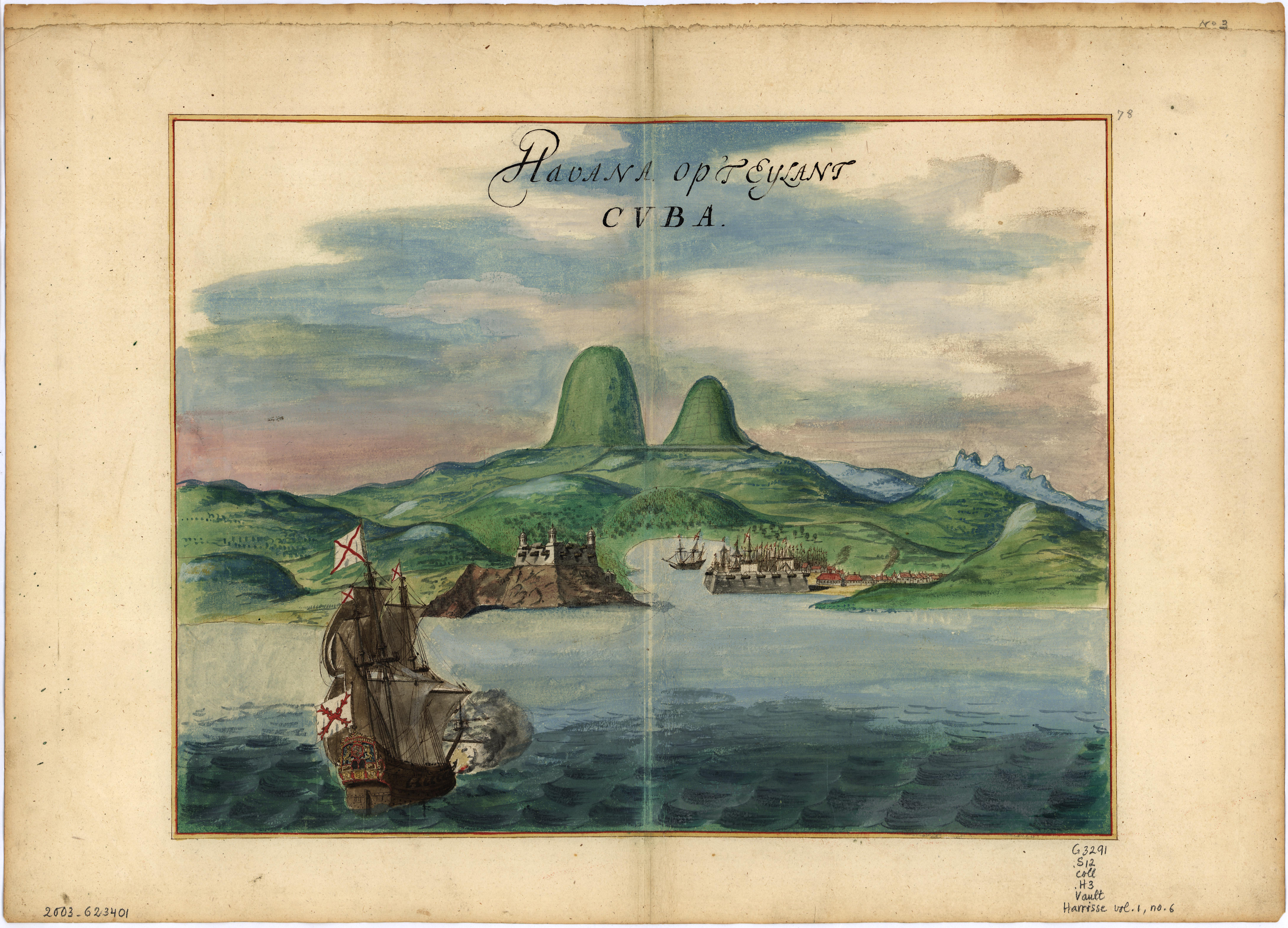 "Havana op 't Eyland Cvba." (Havana Harbor) Pen-and-ink and watercolor.